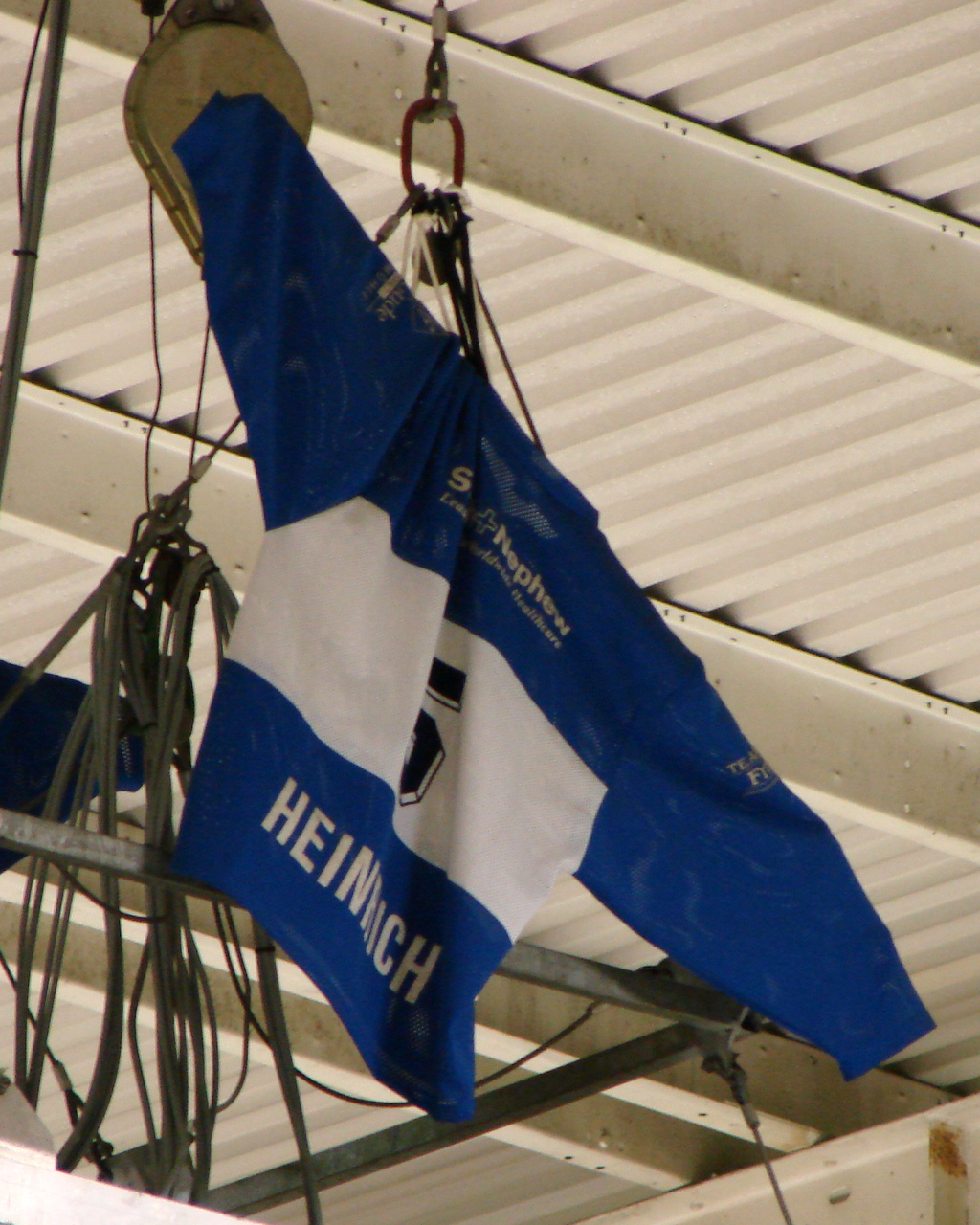 Retired numbers of the Kassel Huskies: #3 for Shane Tarves, #5 for Herbert Heinrich